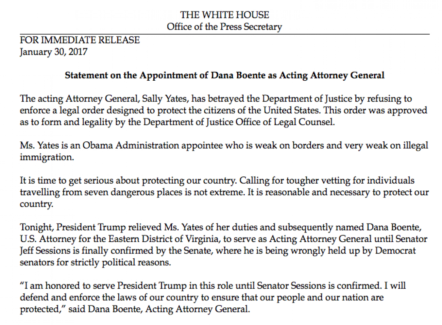 Sally Yates Firing Press Release from the White House